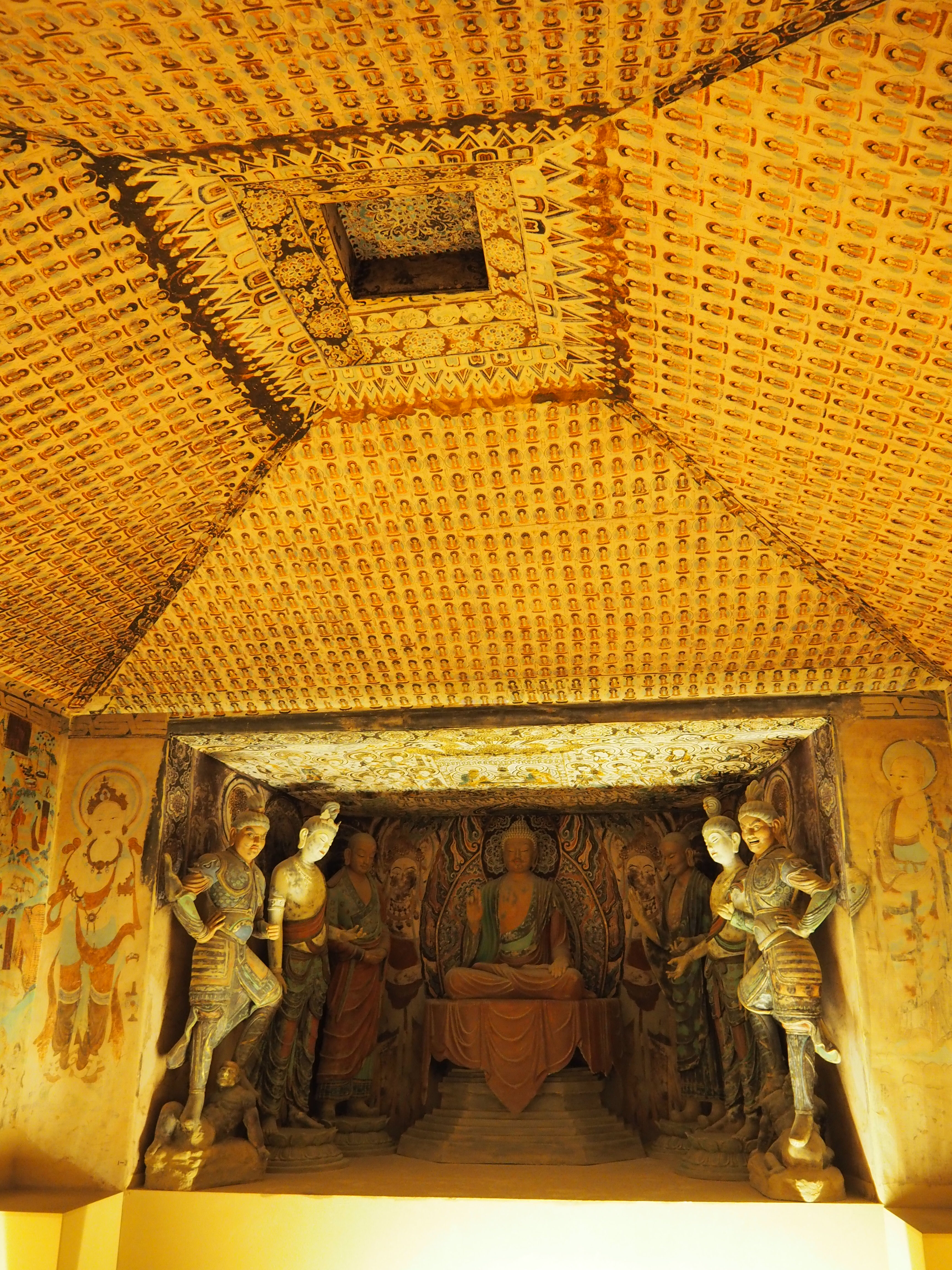 Reconstruction of one of the Mogao caves.